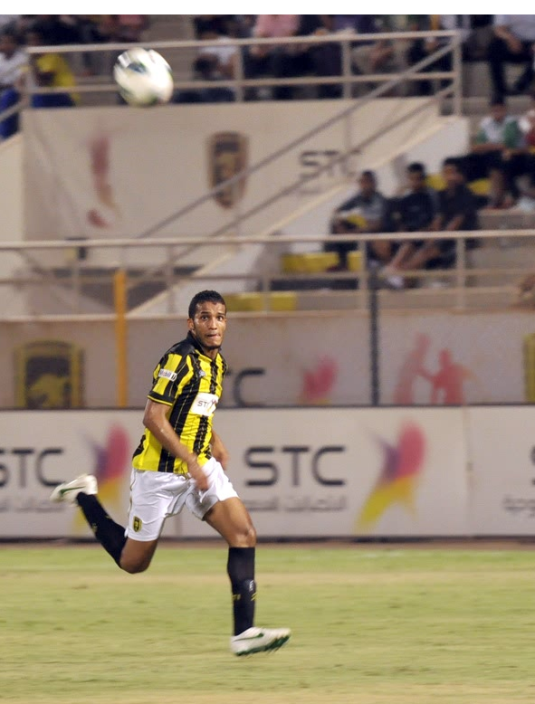 Naif Hazazi during a Friendly game.